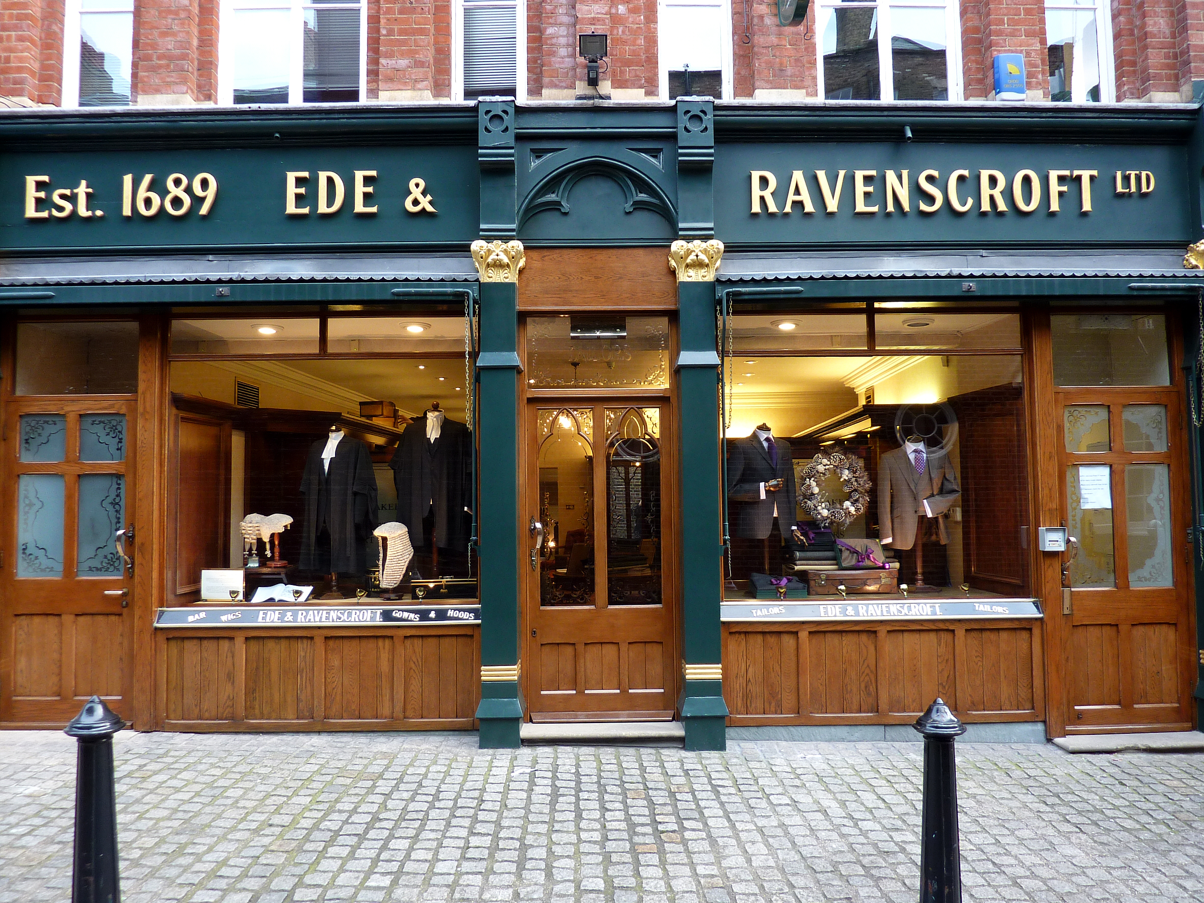 Ede & Ravenscroft Star Yard entrance of the Chancery Lane shop, London, UK.